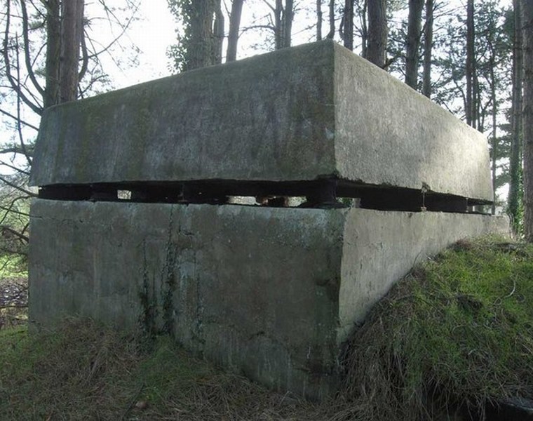 Observation Block The thick concrete roof is supported by rusting metal girders and the slit provides 360 vision for the occupants. Observers would have directed the defence of the airfield from here.